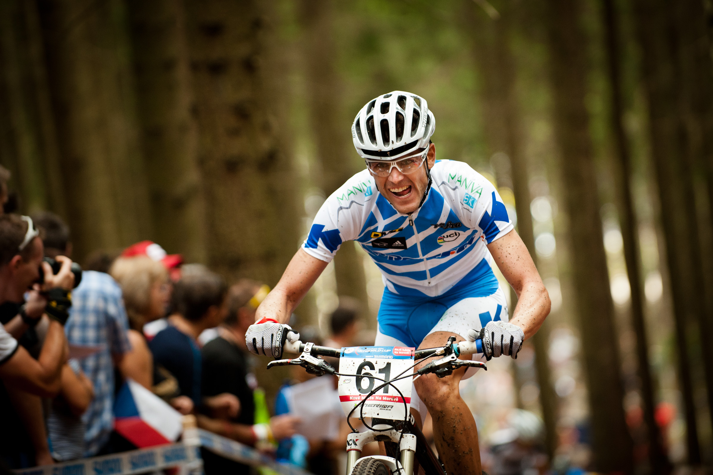 Biker Periklis Ilias while racing.